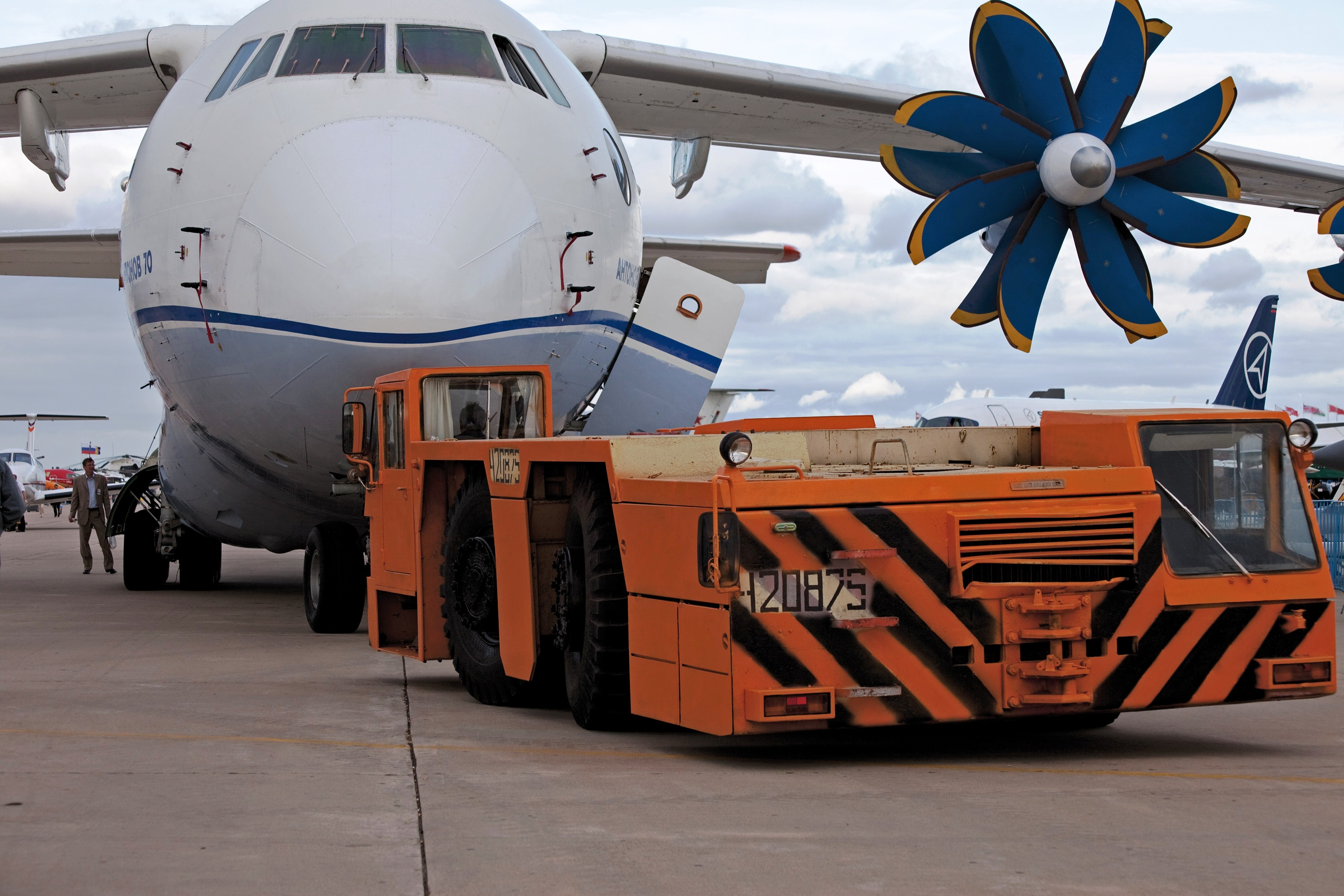 BelAZ Pushback tractor at MAKS Airshow 2009 in Russia.